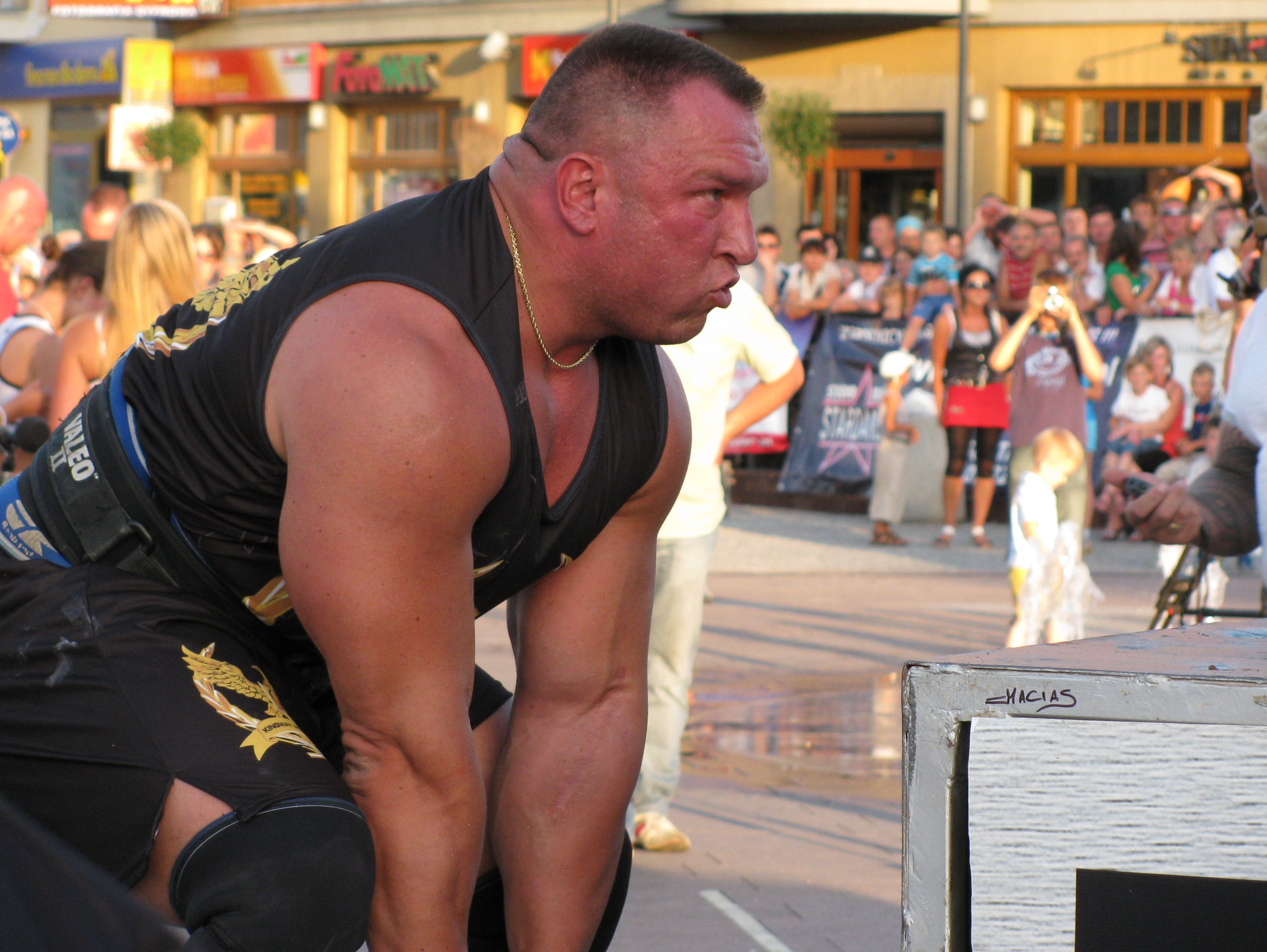 Jaroslaw Dymek - a strength athlete from Poland at Power Stairs